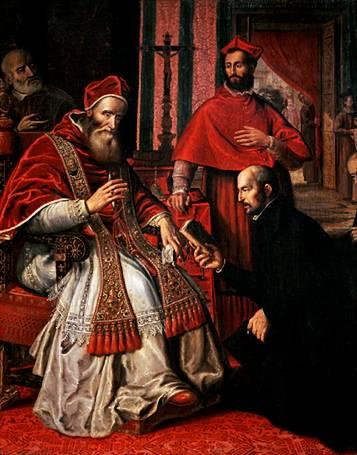 Pope Paul III approve the Formula Instituti of Ignatius of Loyola (1539)